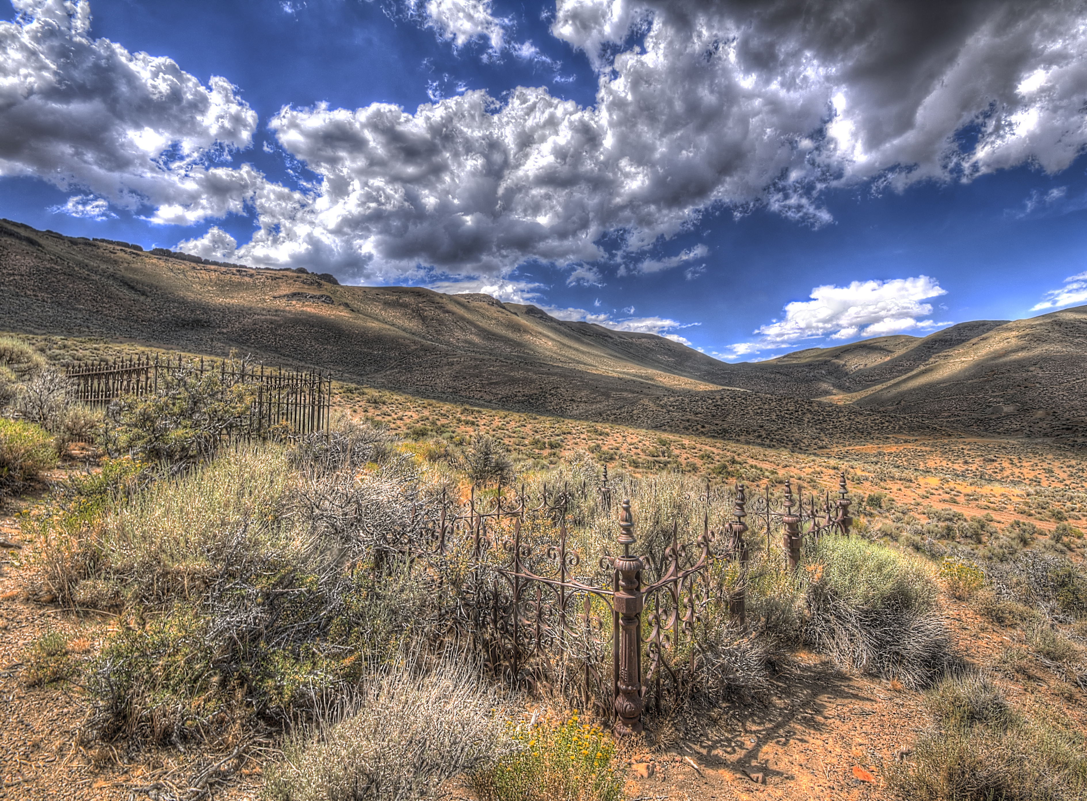 Image: Galena Ghost Town Location: Battle Mountain BLM District: Battle Mountain Photographer: William O. PIC: 12 MB 2014